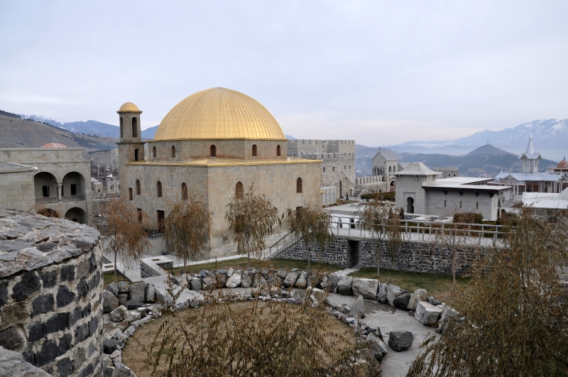 Rabati Fortress in Akhaltsikhe